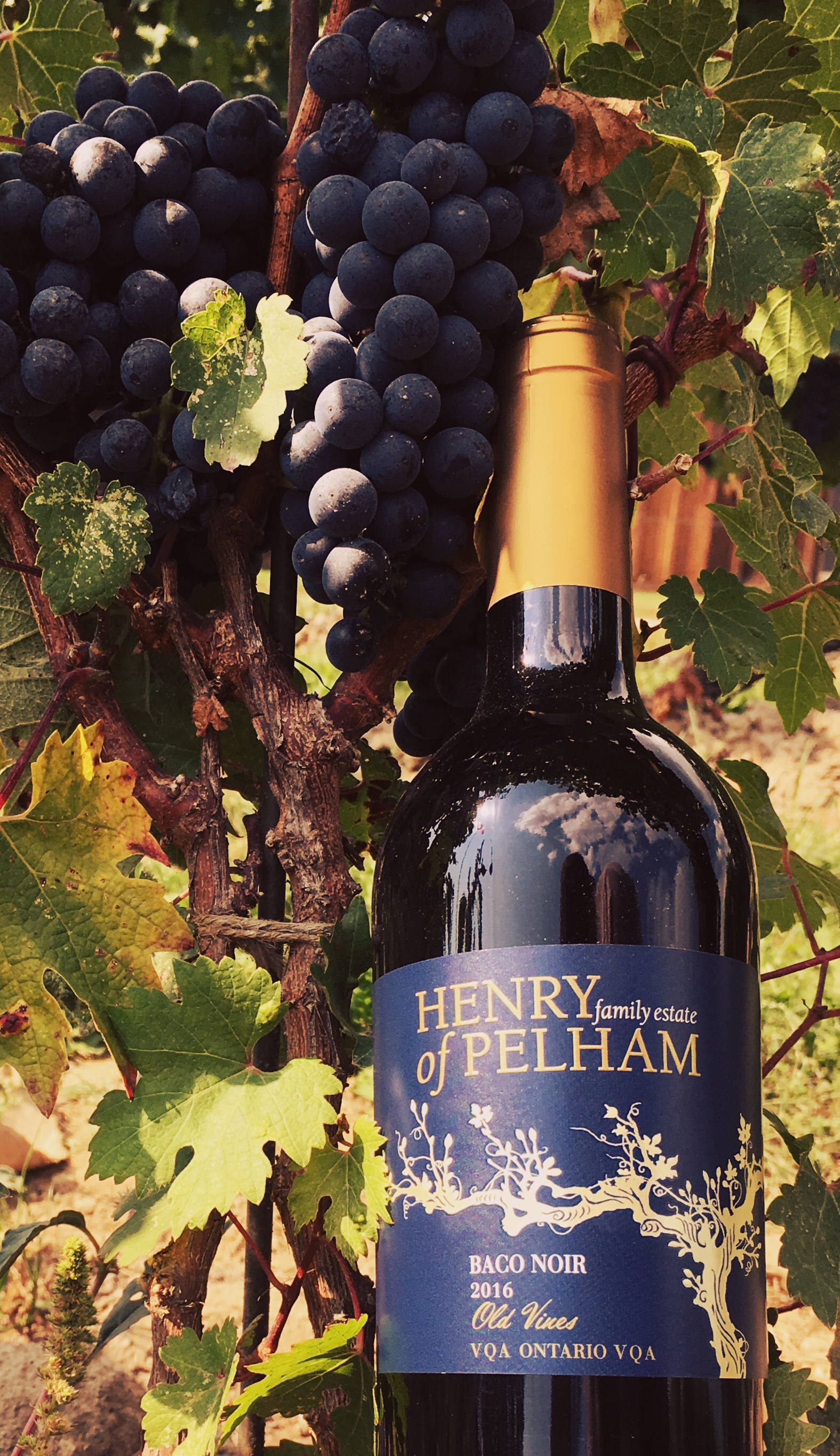 2016 Old Vines Baco Noir